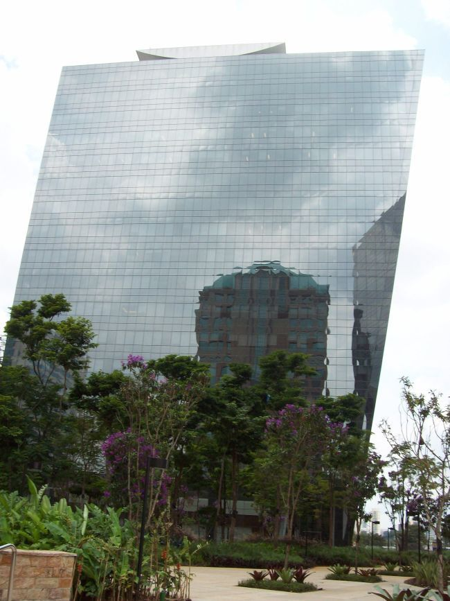 Rocha Verá complex, in São Paulo City.